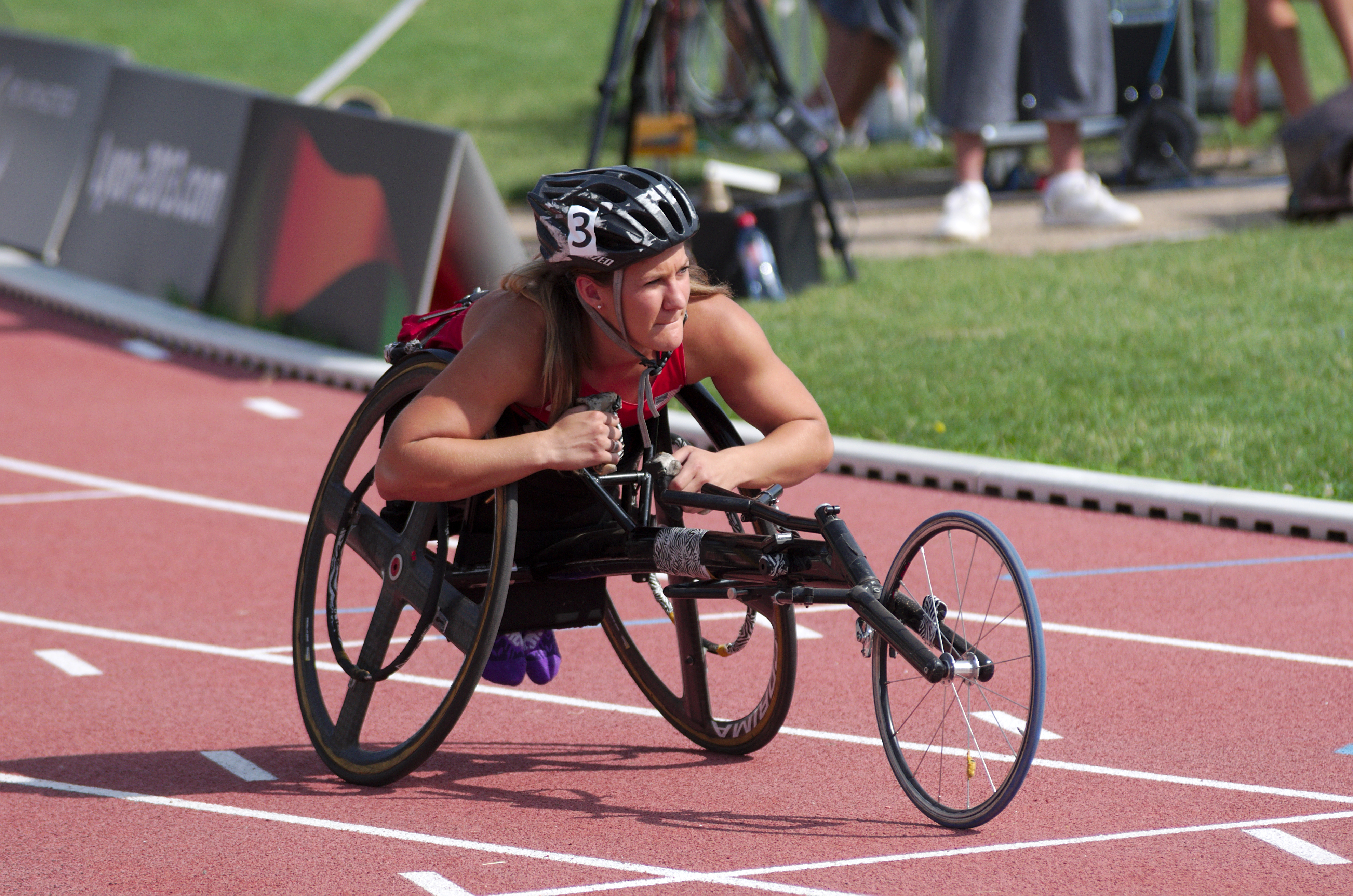 Chelsea McClammer of USA during the Women's 400m - T53 first semifinal